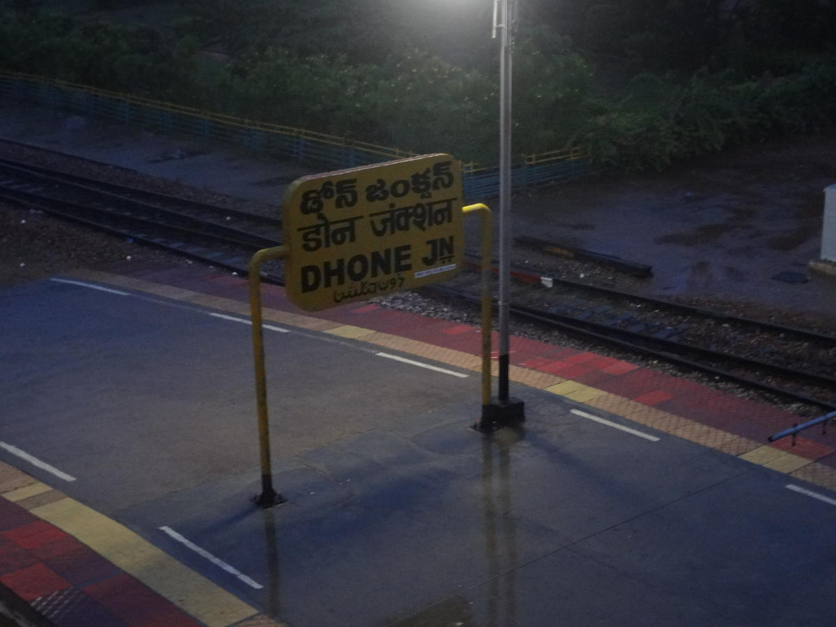 Dhone Jn. station board Picture on a rainy day early in the morning